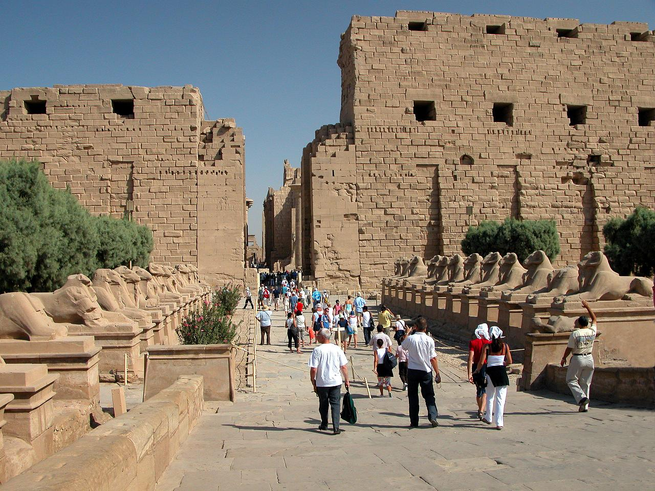 Karnak Temple, Luxor, Egypt Karnak is the biggest temple complex in the world, covering an area of 100 hectares. The great temple at the heart of Karnak is so big, St Peter's, Milan and Notre Dame Cathedrals could be lost within its walls. Much of it has been restored during the last century and the knowledge of the buildings here in different periods of Egyptian history is still increasing each year. In ancient times, Karnak was known as Ipet-isut, “The most select of places”. A lot of pharaohs were involved in building Karnak Temple. Construction started in 2134BC and it was finished in 311BC. The temples are built along two axes (east-west and north-south) with the original Middle Kingdom shrines built on a mound in the centre of what is now called the Temple of Amun. The west side is the entrance to the temple which was once a quay (a landing place where vessels may load or unload) built by Rameses II to give access via a canal to the river Nile. This is where boats carrying statues of the gods would have arrived and departed from the temple during festivals, such as Opet, and from where the cult statue of Amun would leave on its weekly tour of the west bank temples.